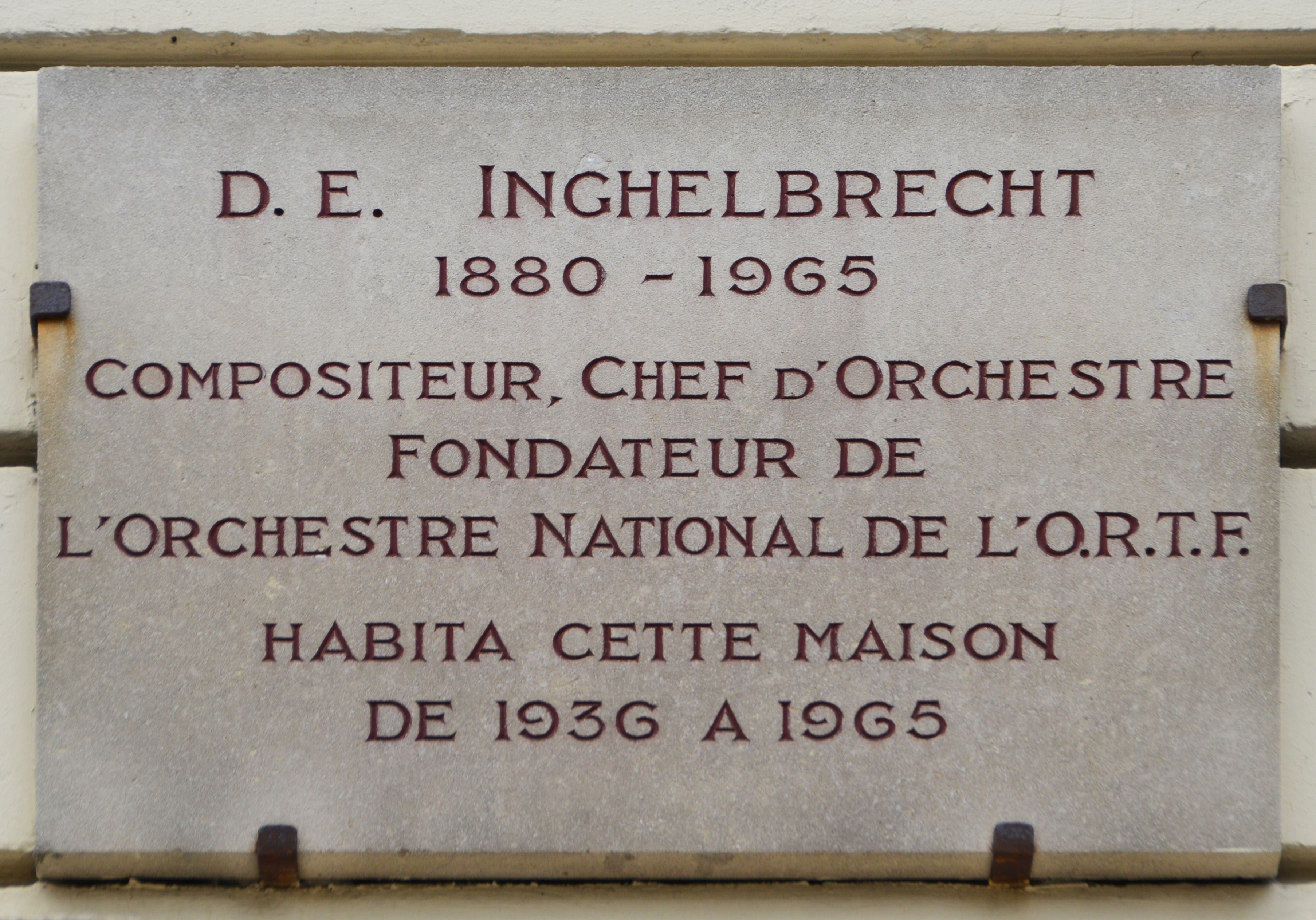 Read more about him here